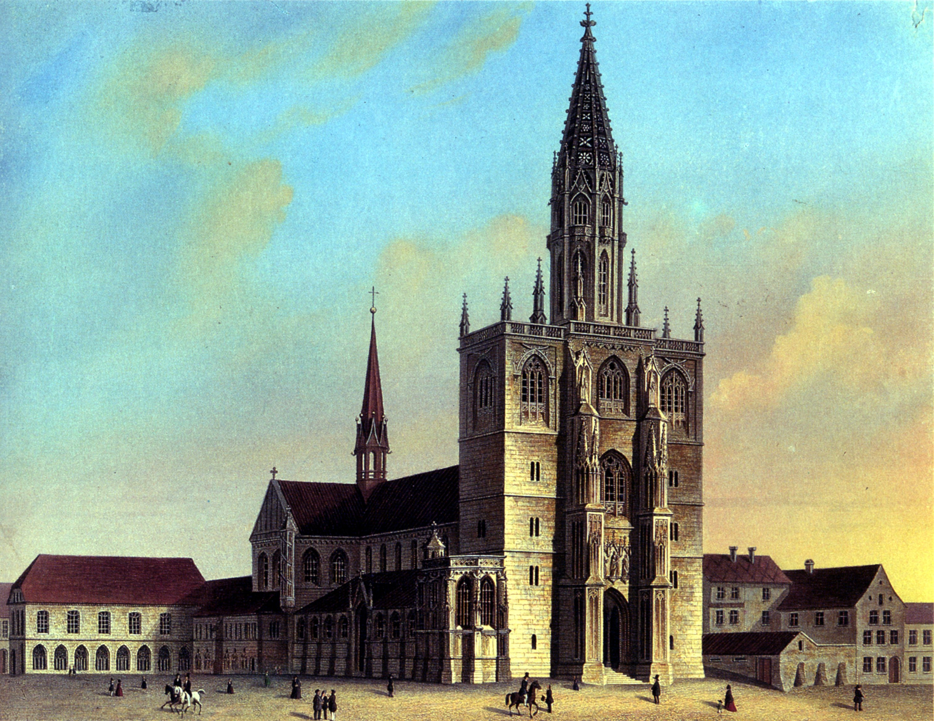 Cathedral of Konstanz, steel engraving after a drawing